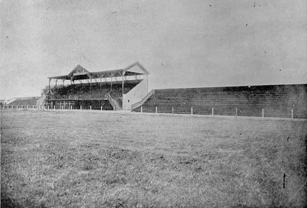 The Club A. Independiente stadium. It would be destroyed by fire the next year.